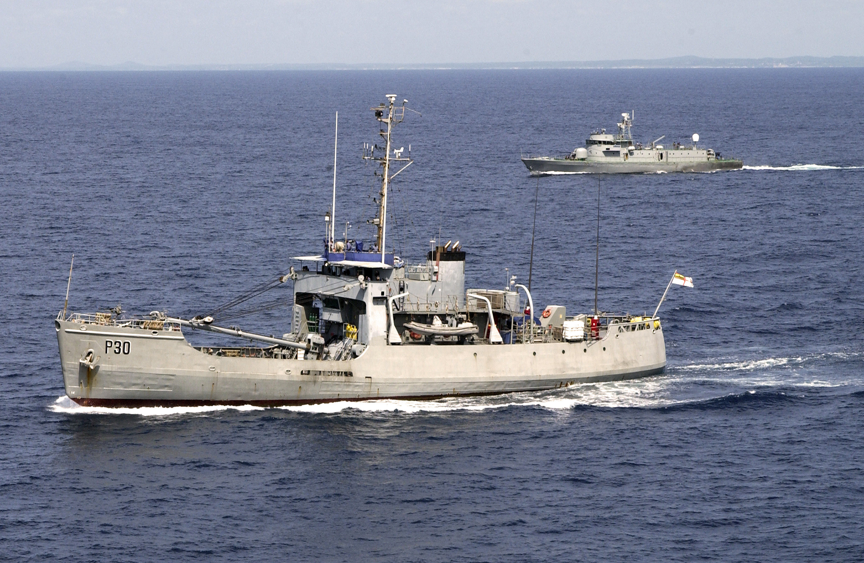 051020-F-5789F-035 Gulf of Guinea (Oct. 20, 2005) - The Ghanaian patrol ships GNS Anzone (P 30), and the GNS and the GNS Achimota (P 28), conduct division tactics off the coast of Ghana during the West African Training Cruise '06 (WATC). The WATC enhances security cooperation and fosters new partnerships between the United States, North Atlantic Treaty Organization partners and the participating West African nations of Ghana, Senegal, Guinea and Morocco through real-world training and engagement opportunities.